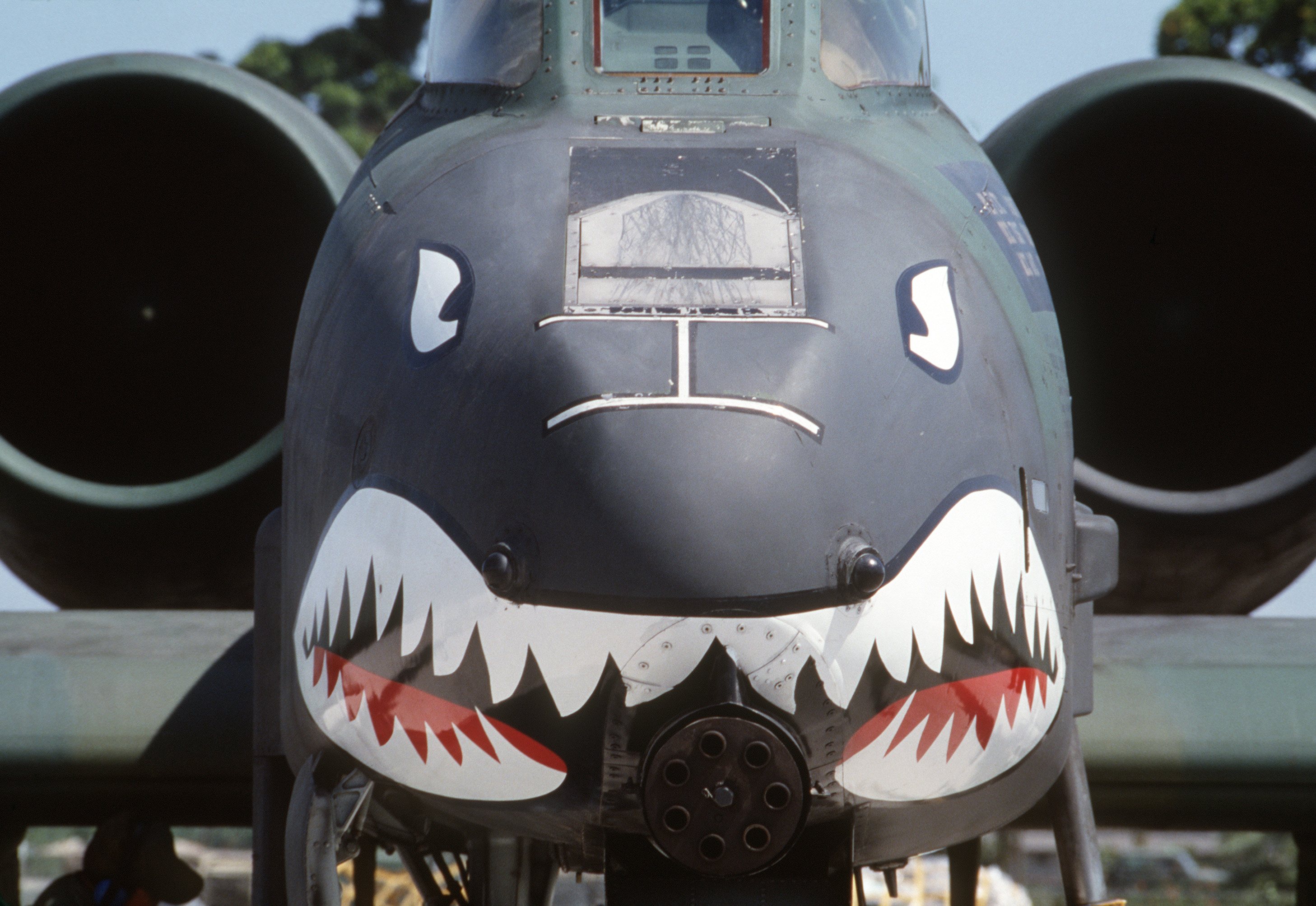 A front view of a 23rd Tactical Fighter Wing A-10 Thunderbolt II aircraft parked on the flight line during Exercise SOLID SHIELD '87.